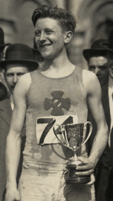 A cropped image of marathon runner Harry J. Smith holding a trophy in 1911.